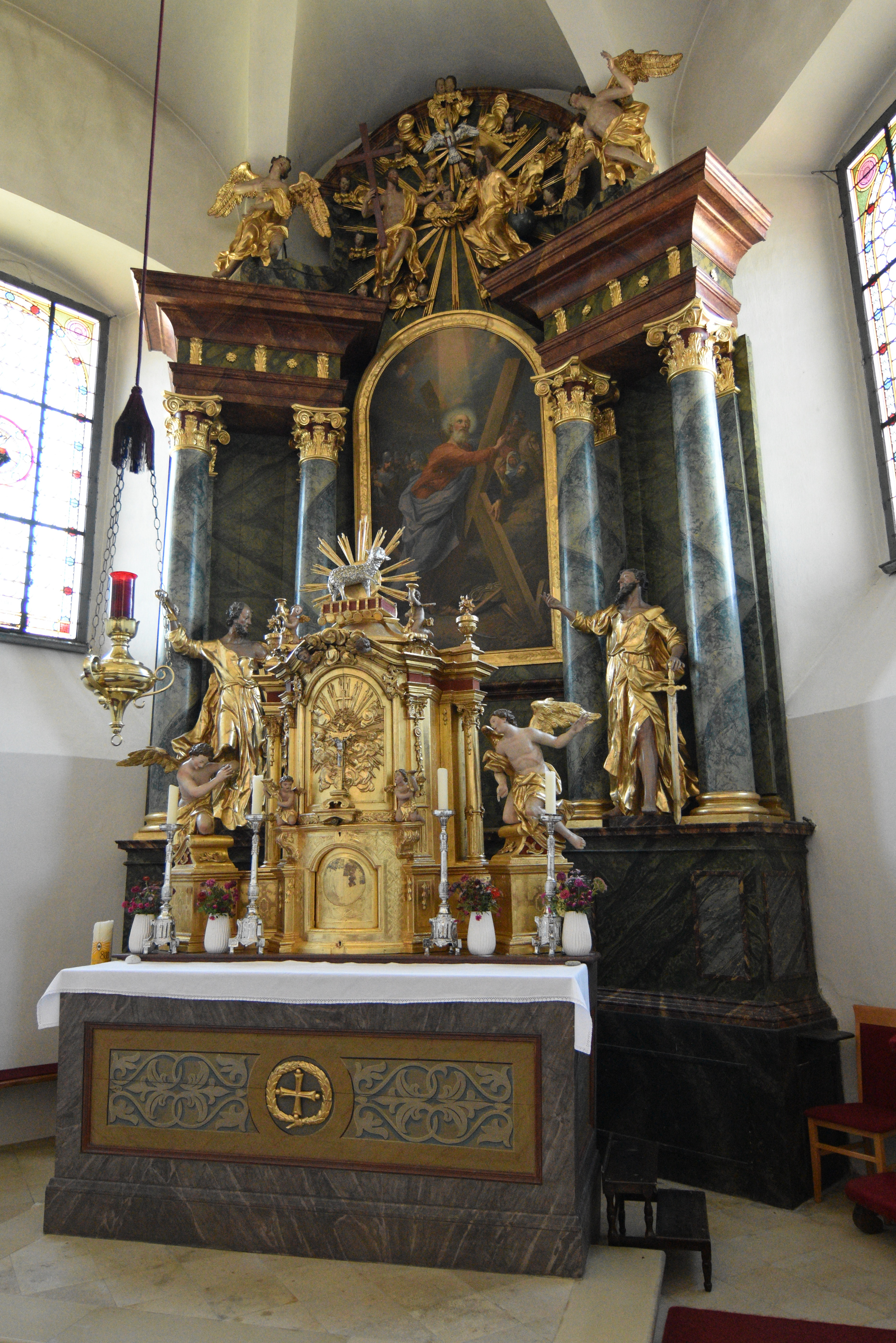 Saint Andrew Church (Ebersdorf) - Interior